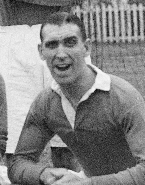 Len Goulden.